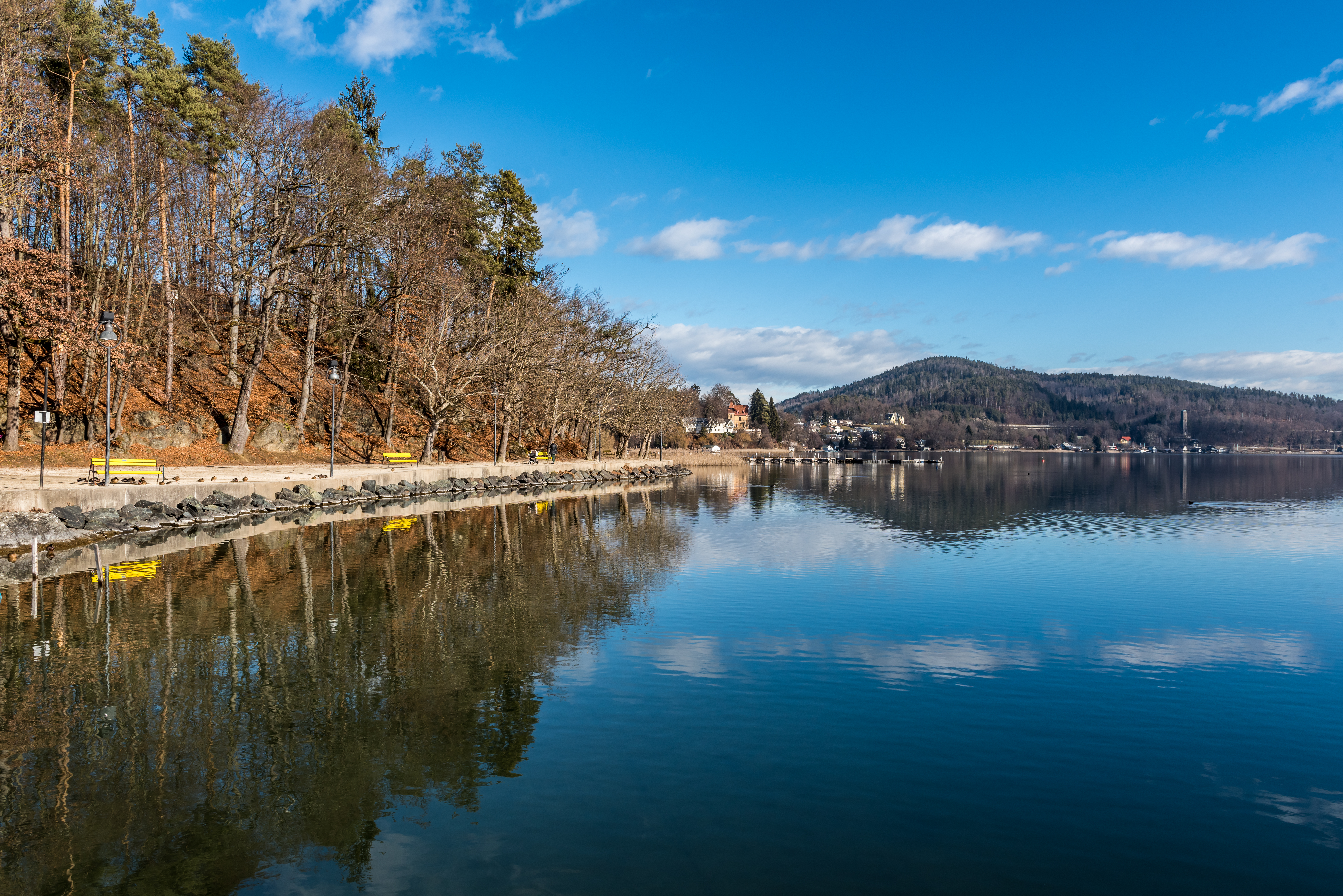 Strandpromenade, municipality Krumpendorf, district Klagenfurt Land, Carinthia, Austria, EU